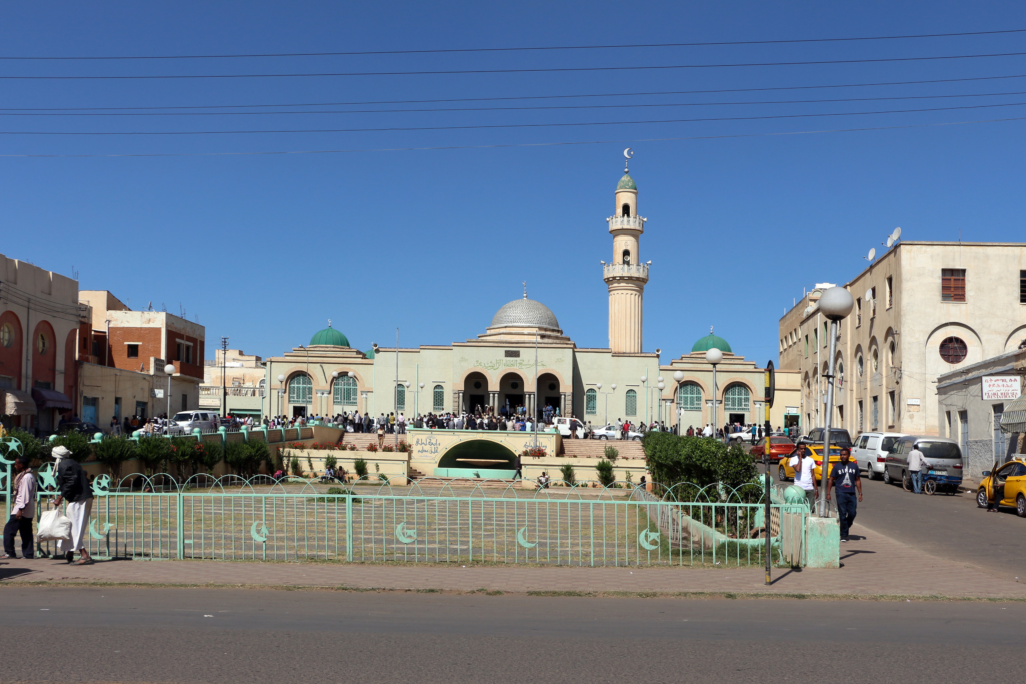 Asmara, moschea 01.JPG